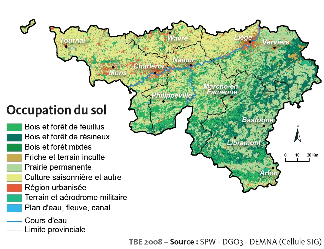 Land use map of Walloon Region